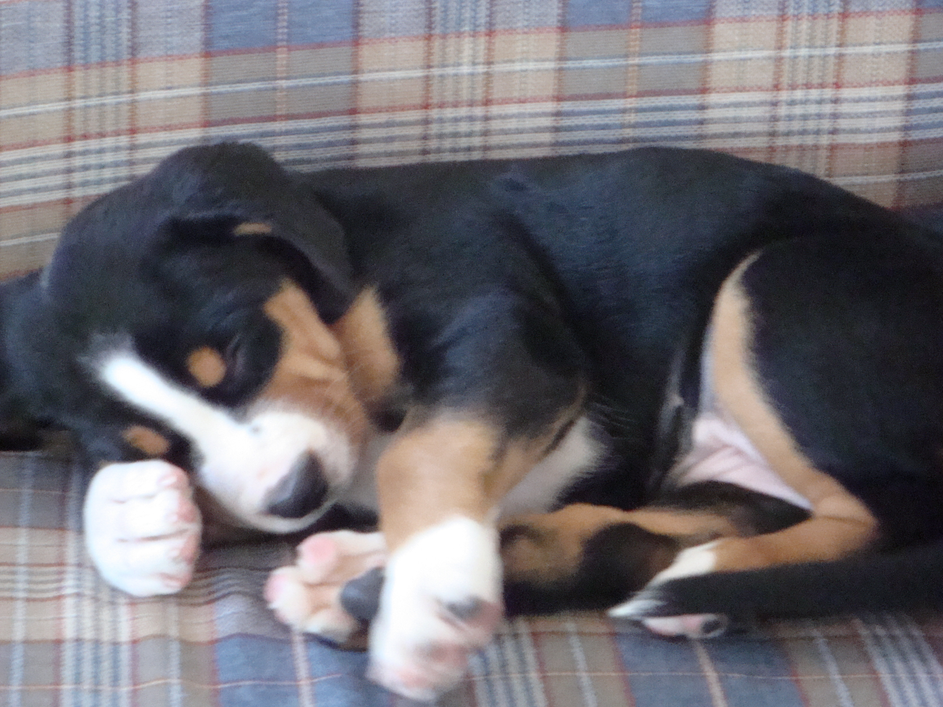 Greater Swiss Mountain Dog puppy sleeping.